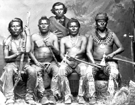 ca. 1868-71 photograph of Pawnee Scouts by William Henry Jackson. (First from right) 'Man who left his enemy lying in the water', Raruur tkahaareesaaru 'His Chiefly Night', or 'Night Chief' Ticteesaaraahki' 'One who strikes the chiefs first' Tirawa t Reesa ru' 'Sky Chief' Standing, Baptiste Bayhylle, Resa ru' Siriite‚riku "The Heavens See Him as a Chief", Pawnee/French interpreter. Smithsonian Institution, National Anthropological Archives, 1297.